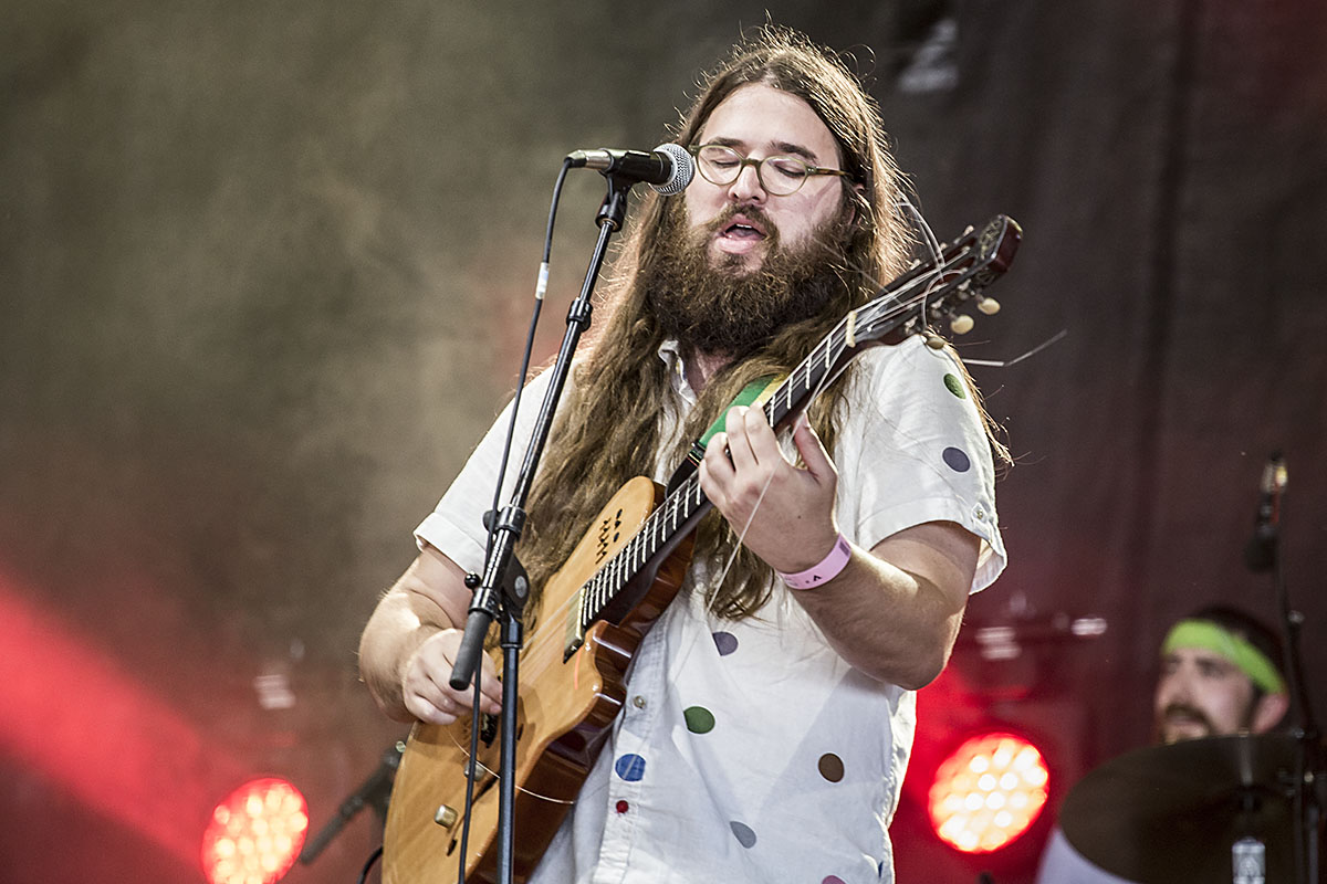 Matthew E. White playing with his band at Roskilde Festival in Denmark on Juni 6, 2013